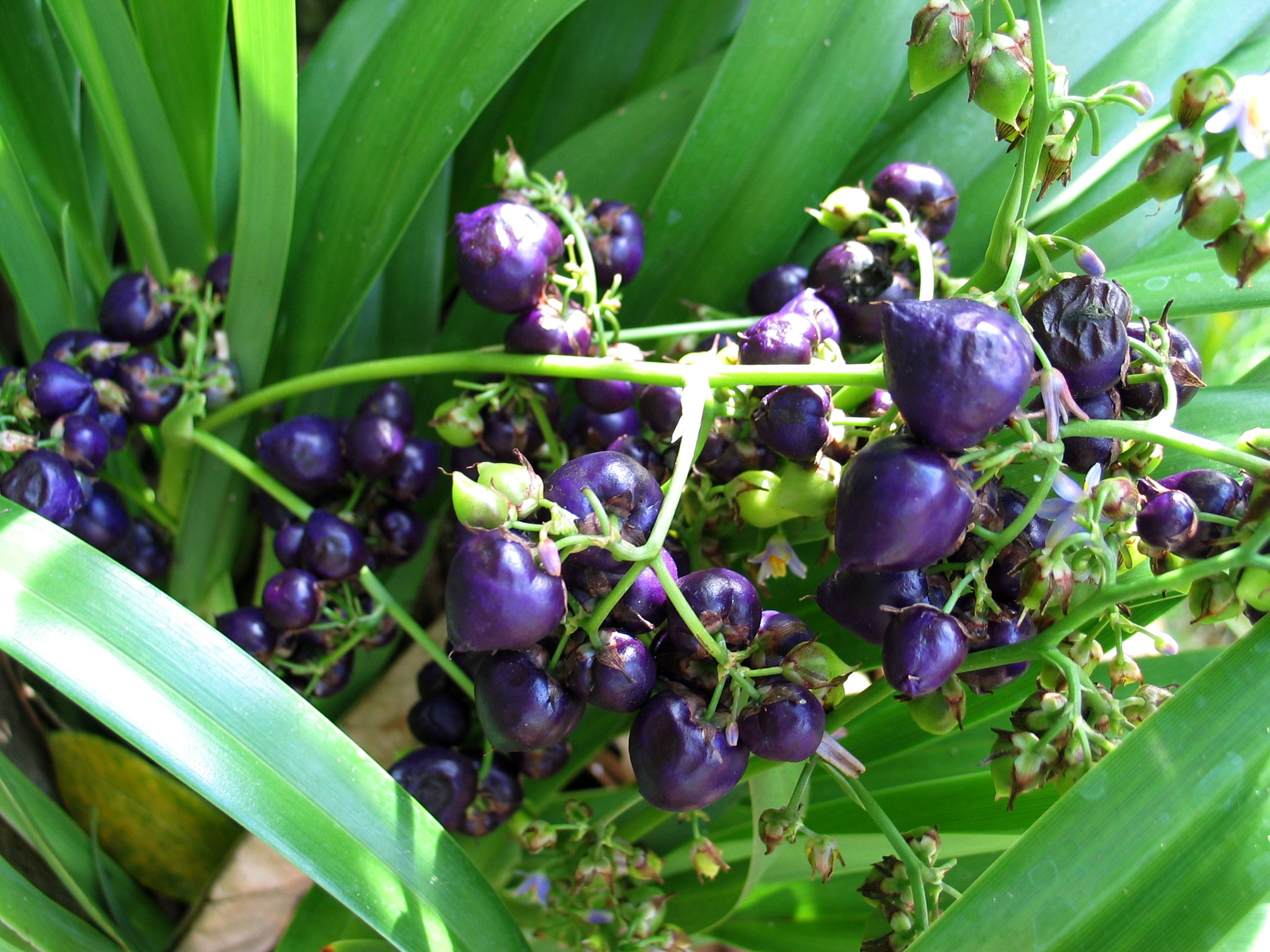 ʻUkiʻuki or Hawaiian dianella Xanthorrhoeaceae (Hemerocallidaceae) Endemic to the Hawaiian Islands Oʻahu (Cultivated) NPH00003